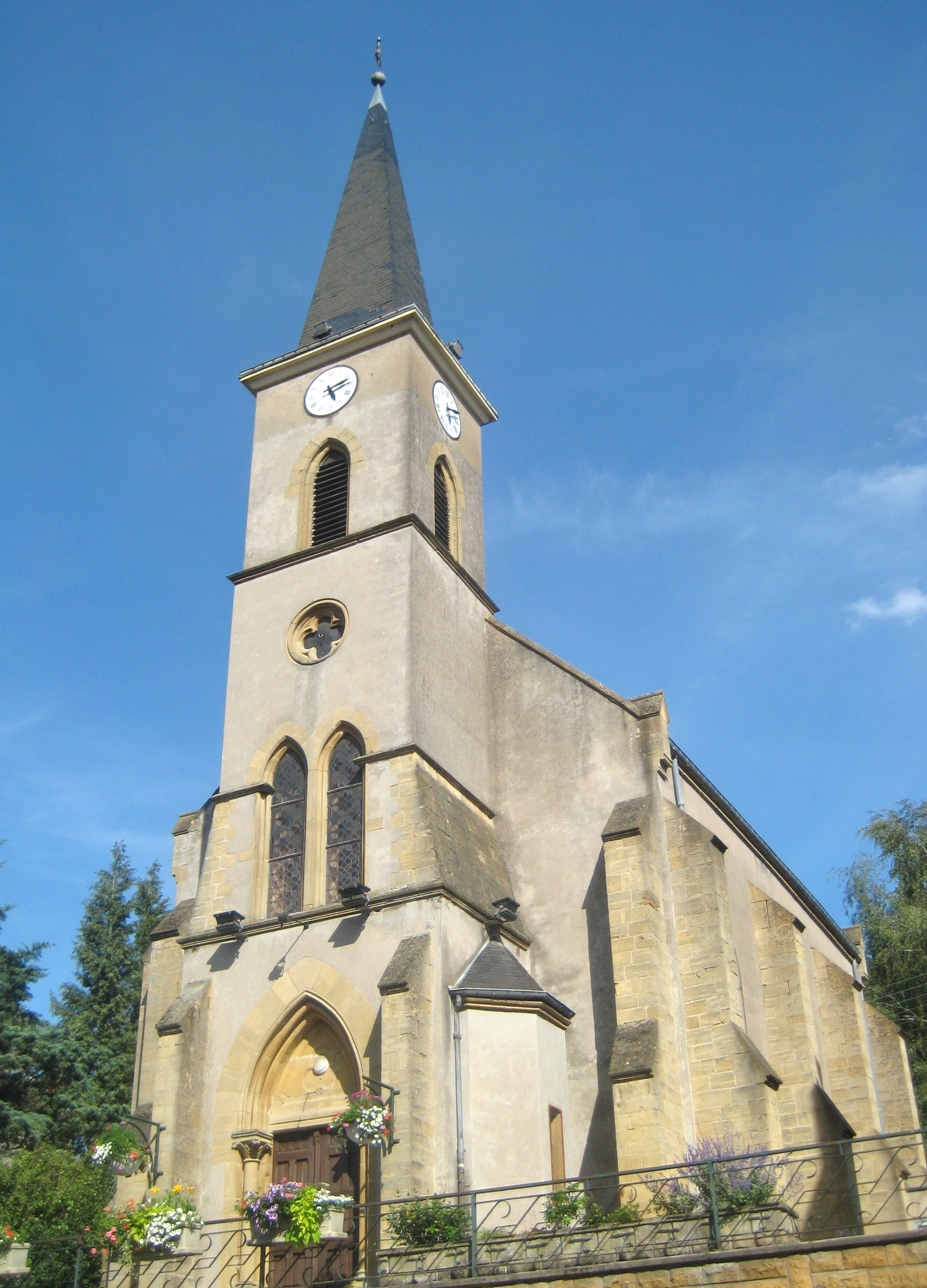 Description temple Algrange Date25 August 2011Sourcemon appareil photoAuthorAimelaimePermission(Reusing this file) temple Algrange